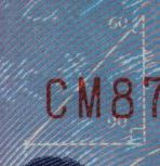 1999年版新台幣1000元鈔右上角之錯誤三角形放大。 45度角稱作60度。2004年版除之。[1] An enlargement of the triangle in the upper right corner of the 1999 edition of New Taiwan Dollar $1000 note, showing the 45 degree angle labeled as 60 degrees. The triangle was removed in the 2004 edition. [1]